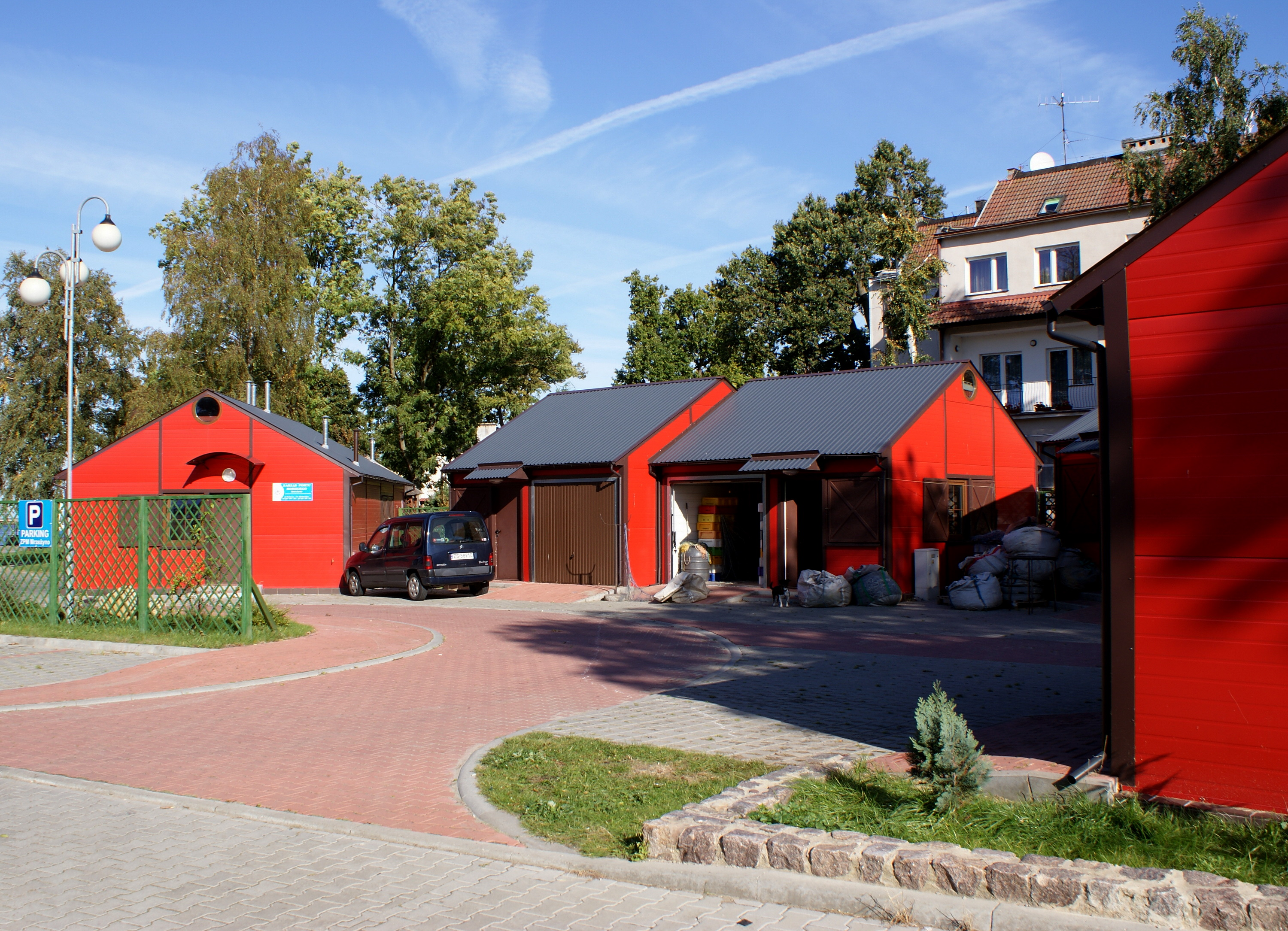 Fishermen's warehouses of the Port of Mrzeżyno